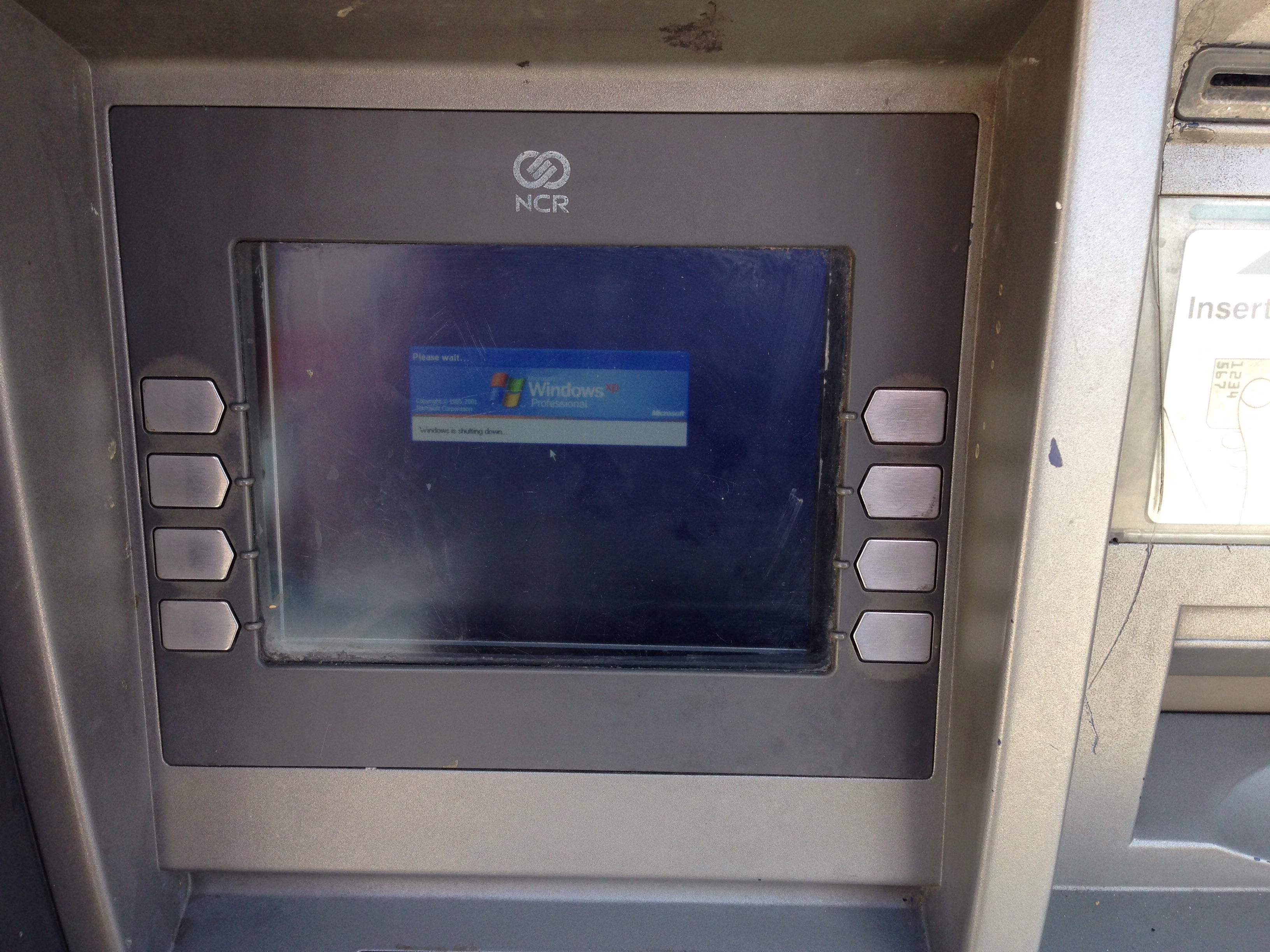 Although Microsoft Windows XP has been out of support by Microsoft for over four years as of August 2018, it still sees usage on systems such as cash points and point-of-sale systems. I was on a driving lesson when I stopped at a local Tesco Express in Slough to withdraw some money. I found this cash point getting into a spot of bother, revealing that it was still running XP in the process while being forced to shut down.